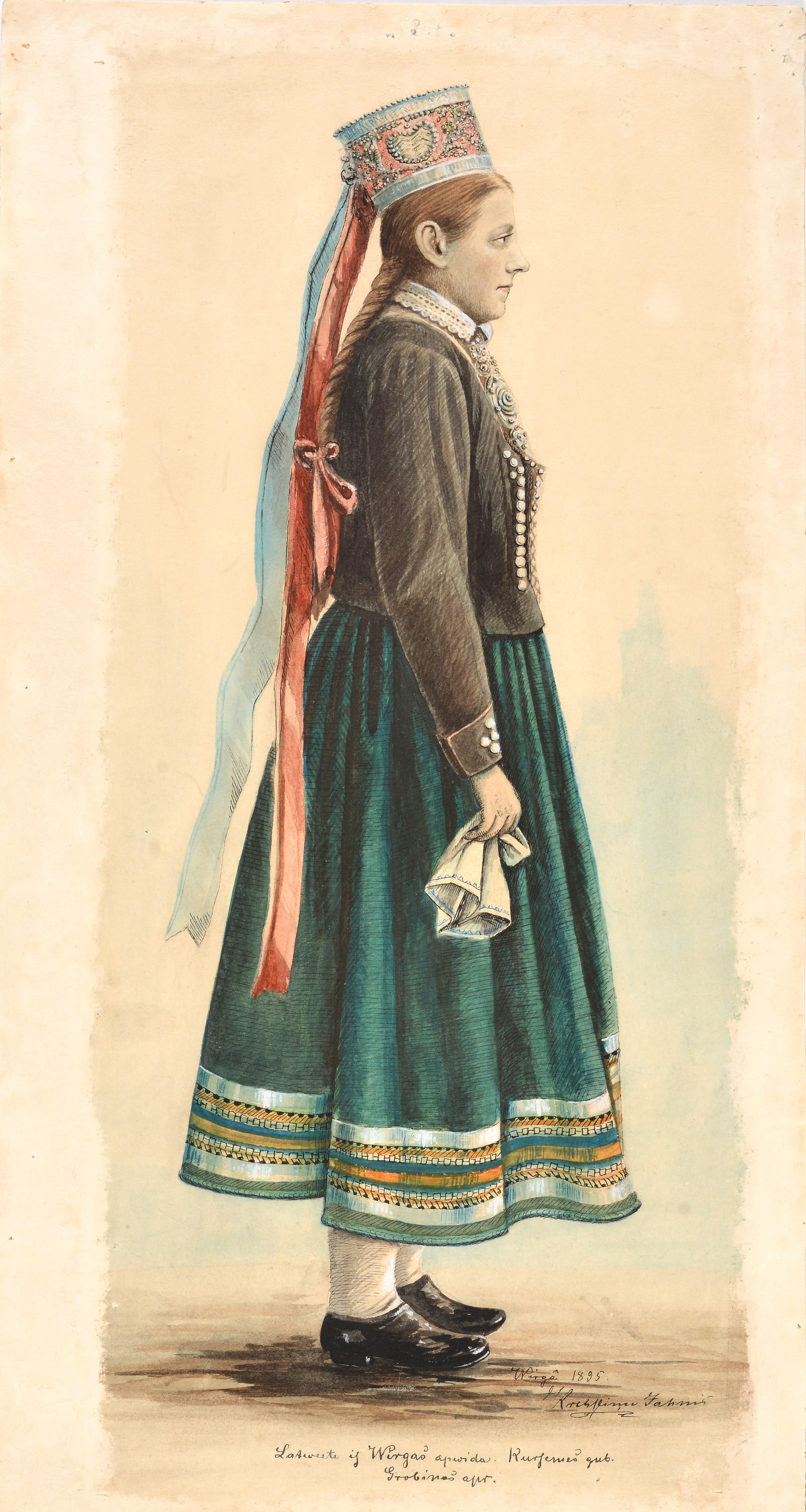 Latvian woman from Virga parish in Grobiņa region